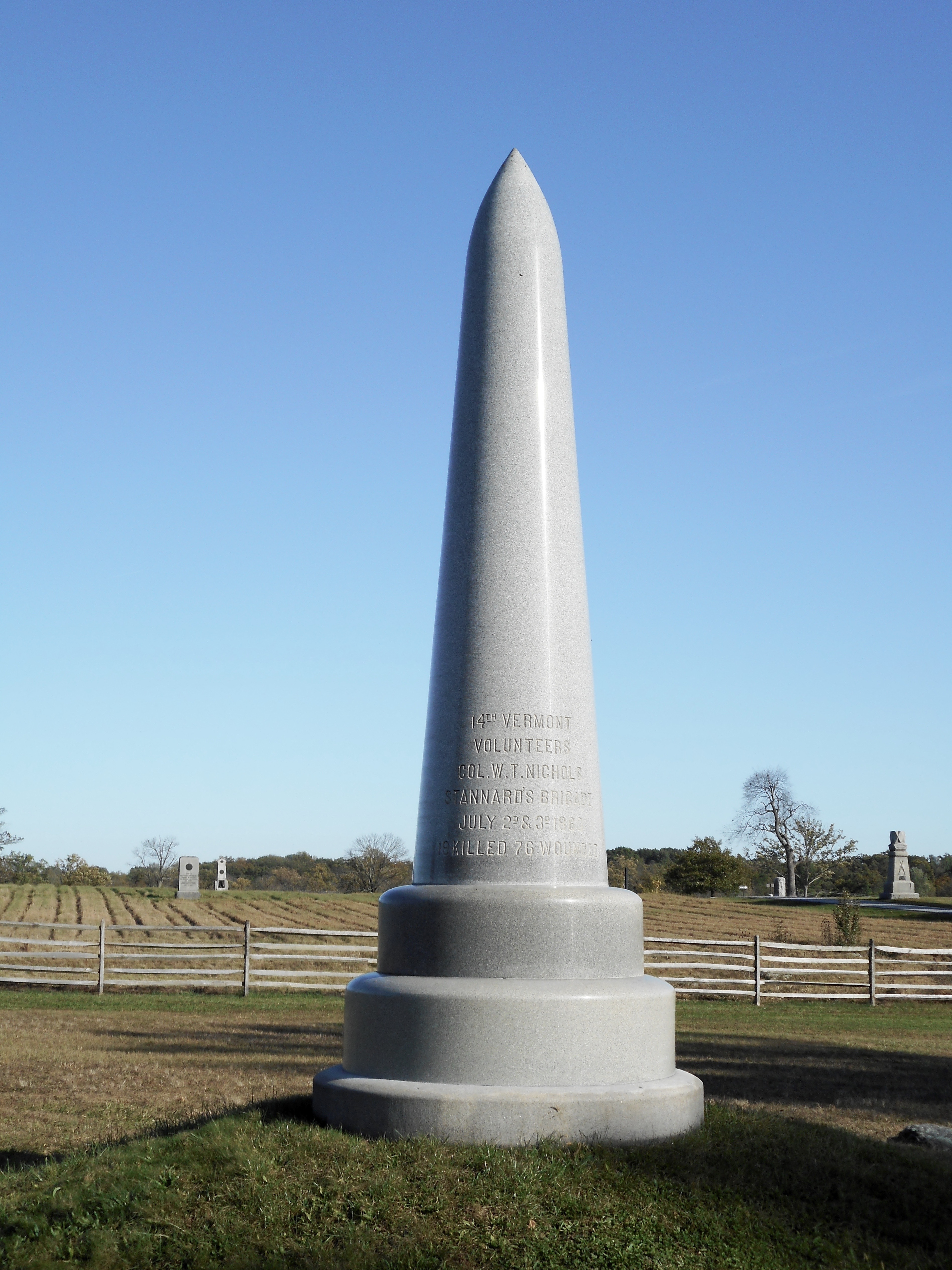 14th Vermont volunteer infantry monument on the Gettysburg battlefield,Gettysburg, Pennsylvania